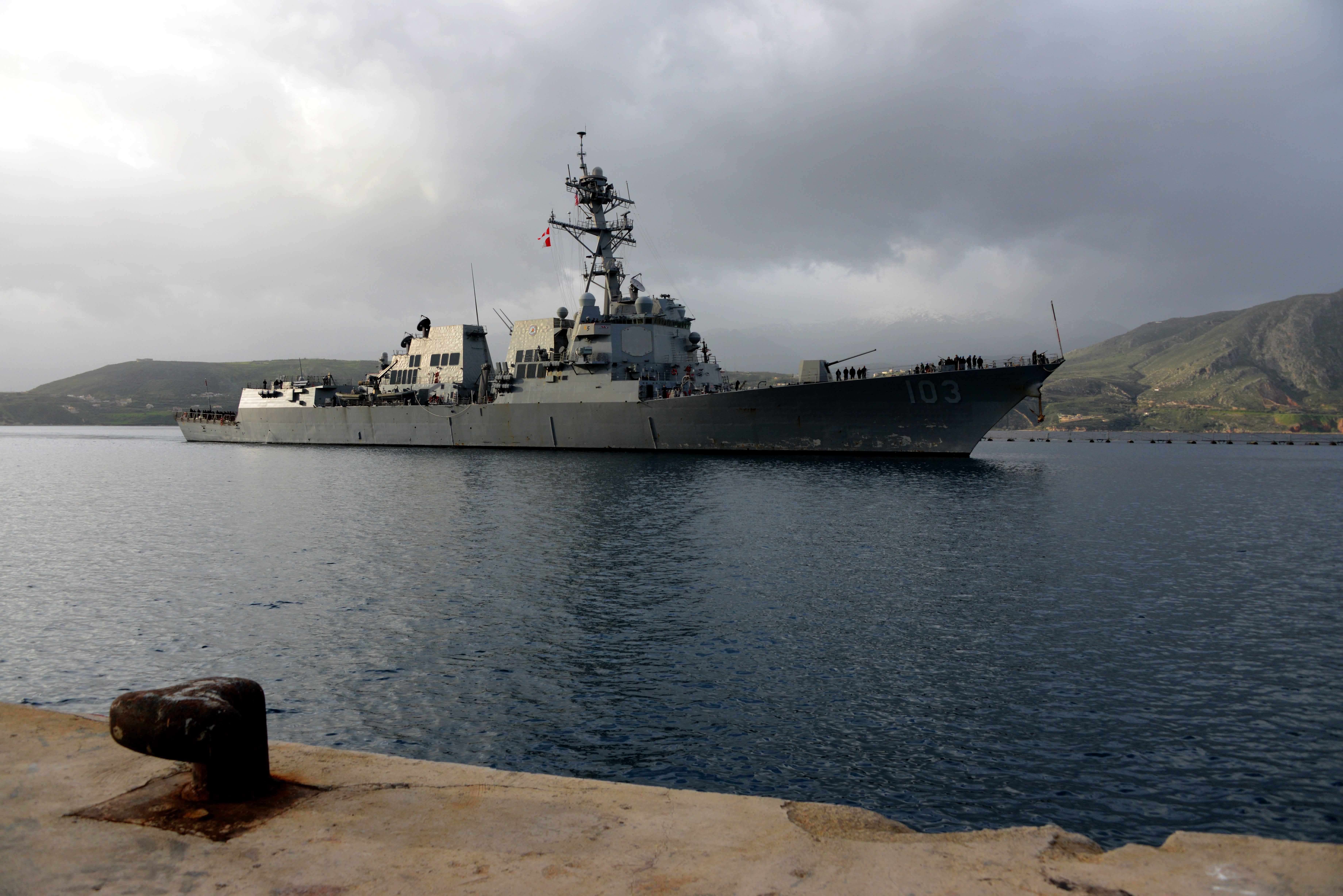 The guided-missile destroyer USS Truxtun (DDG 103), attached to the George H.W. Bush Carrier Strike Group, pulls into Souda Bay for a scheduled port visit. Truxtun is on a scheduled deployment supporting maritime security operations and theater security cooperation efforts in the U.S. 5th and 6th Fleet areas of responsibility. (U.S. Navy photo Mass Communication Specialist 2nd Class Jeffrey M. Richardson/Released)